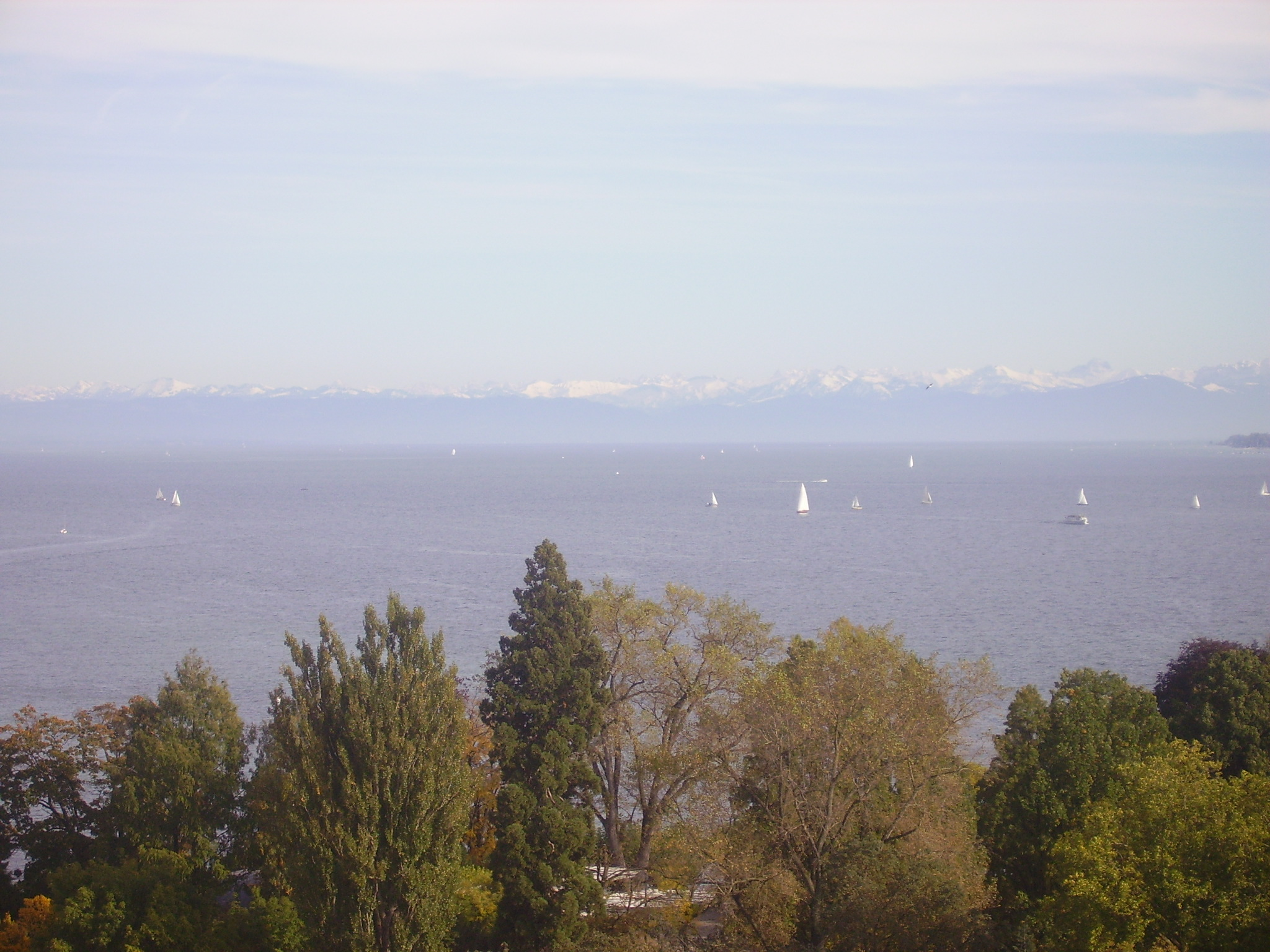 View from Constance Cathedral to Lake Constance & Alps